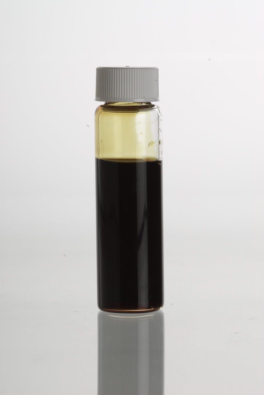 Pumpkin (Cucurbita pepo L.) Seed Oil in clear glass vial